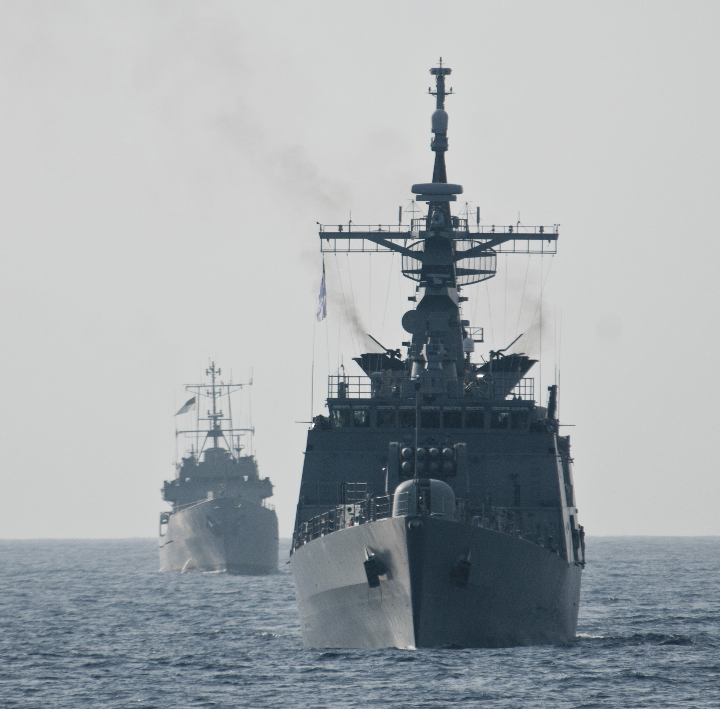 BAY OF BENGAL (Sept. 20, 2012) The Bangladesh Navy Ships Bangabandhu (F-25), right, and Sangu (P-713) steam off the coast of Bangladesh during Cooperation Afloat Readiness and Training (CARAT) 2012. CARAT is a series of bilateral military exercises between the U.S. Navy and the armed forces of Bangladesh, Brunei, Cambodia, Indonesia, Malaysia, the Philippines, Singapore, Thailand and Timor Leste. (U.S. Navy photo by Mass Communication Specialist 3rd Class Sean Furey)